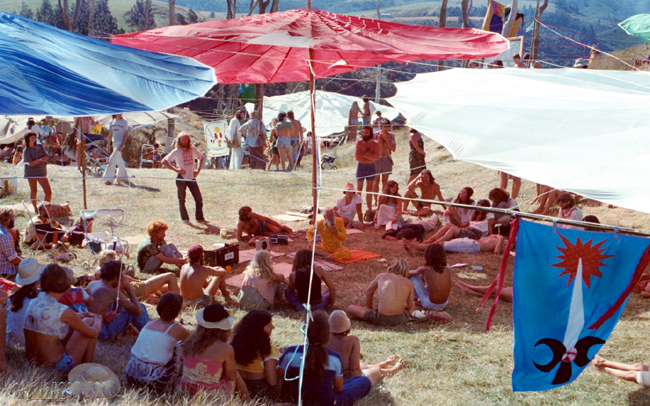 Nambassa 1978 Yoga workshop.